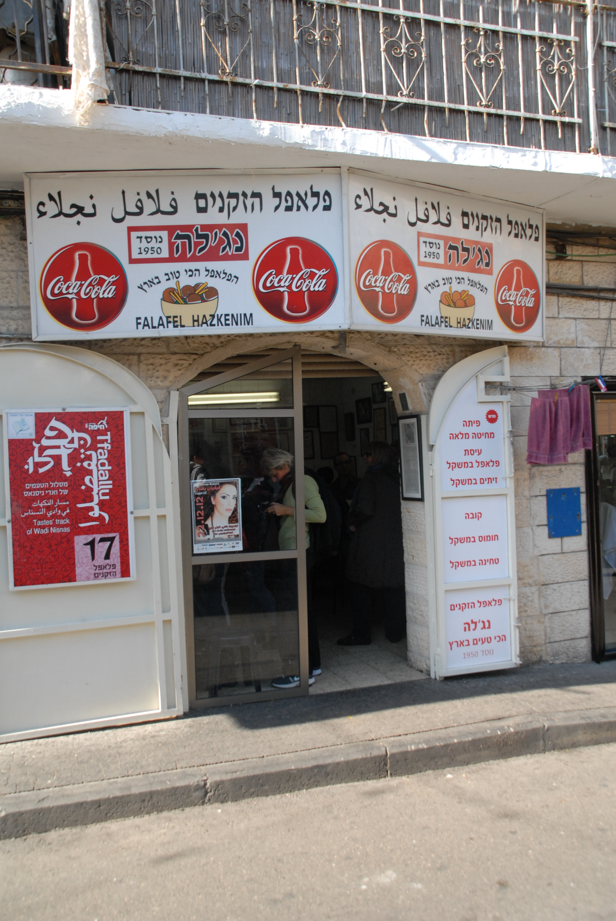 Cities in Israel